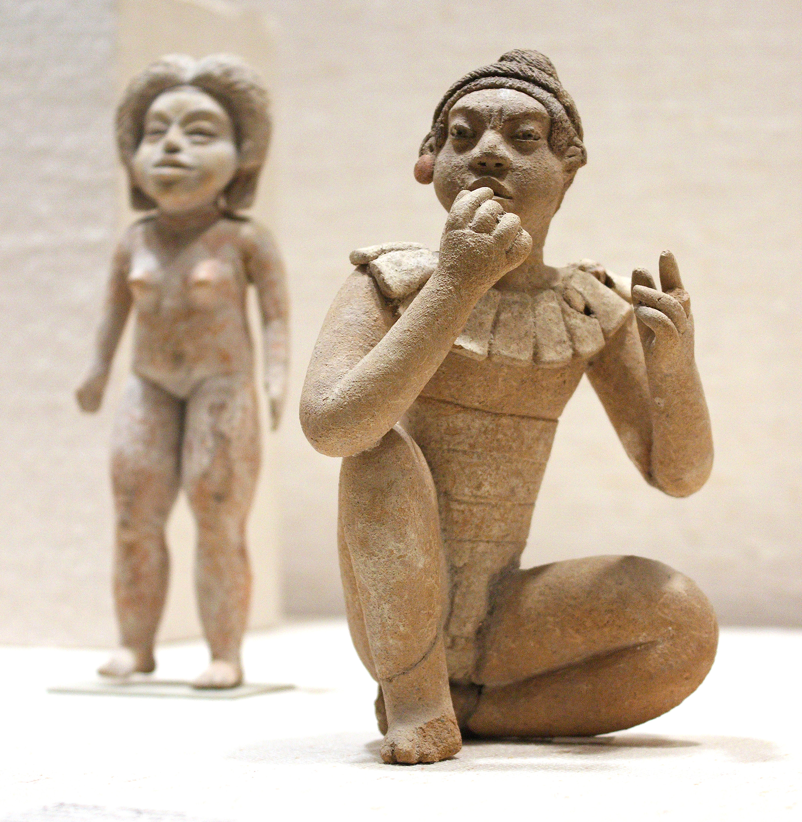 Two Xochipala-style figurines, 13th - 10th century BCE (?), at Metropolitan Museum of Art